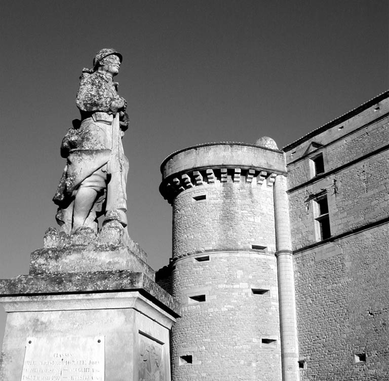 War memorial and castle in the village of Gordes, Vaucluse, France.